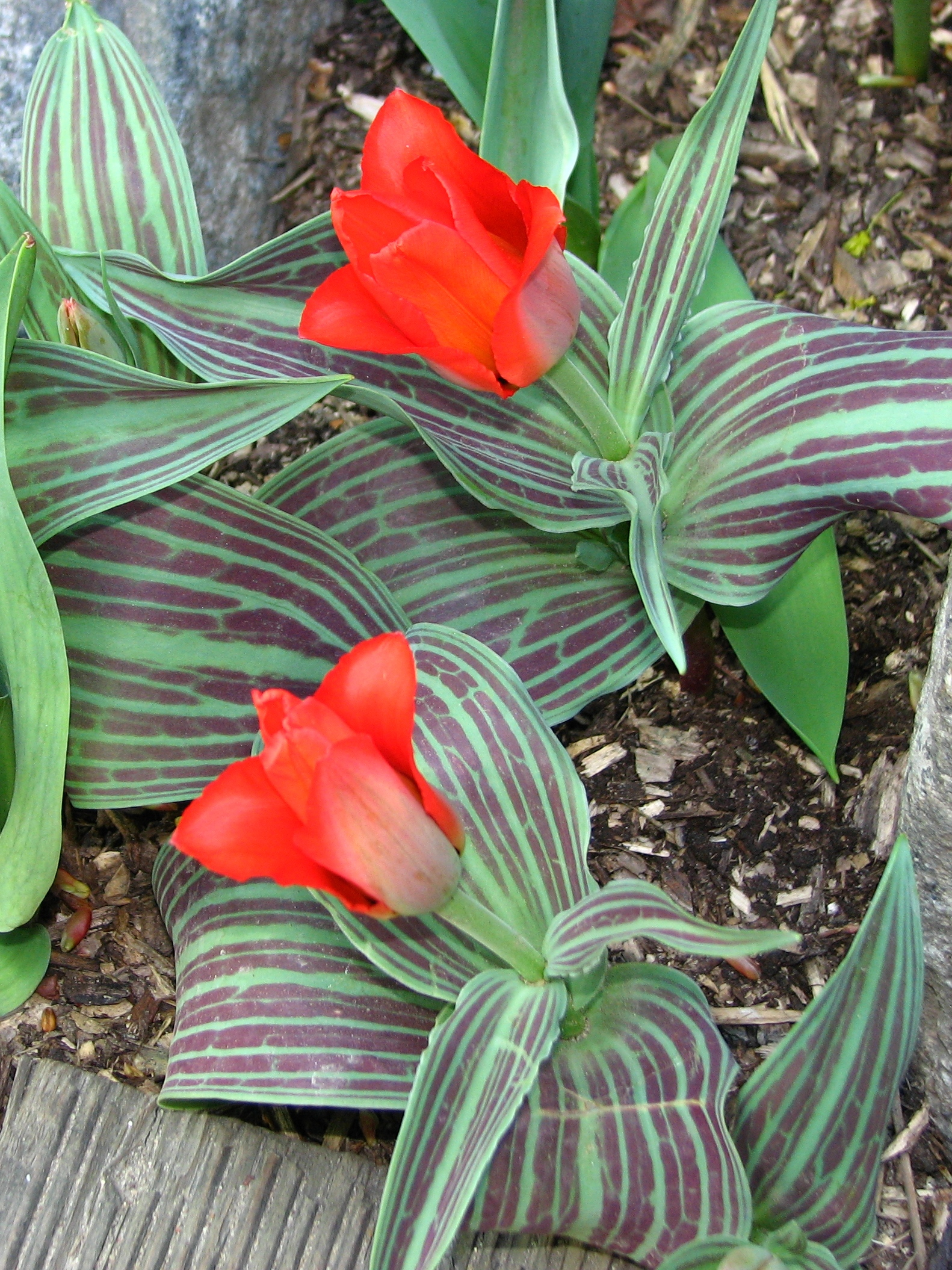 Tulipa greigii (unidentified cultivar) in flower beds in the Botanical Garden of Moscow State University "Aptekarsky Ogorod".